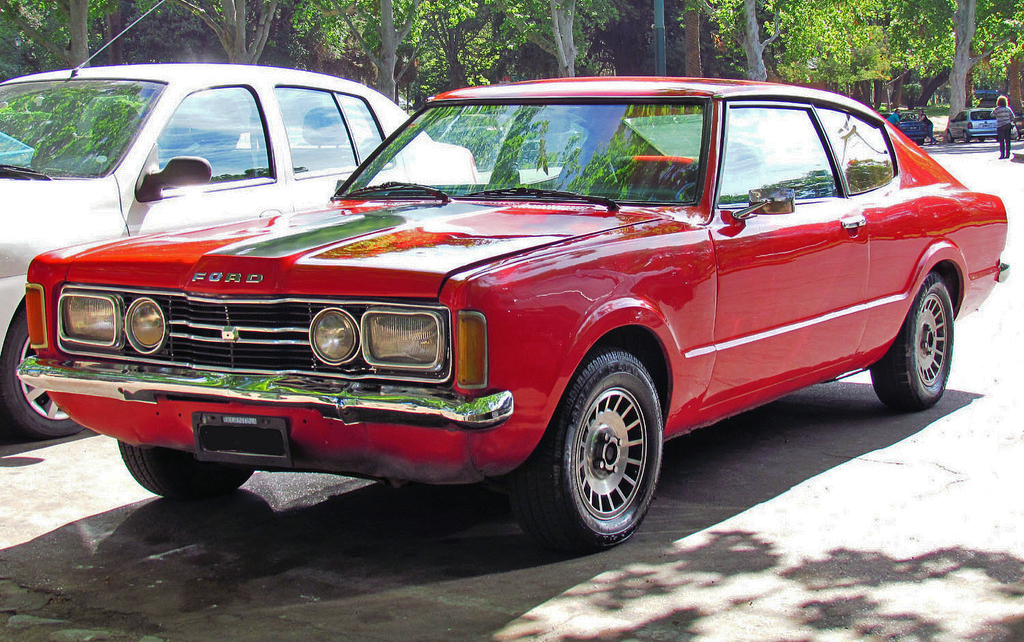 Ford Taunus 2300 GT Coupé in Argentina. The TC1 Coupé was introduced to Argentina on 30 January 1975.